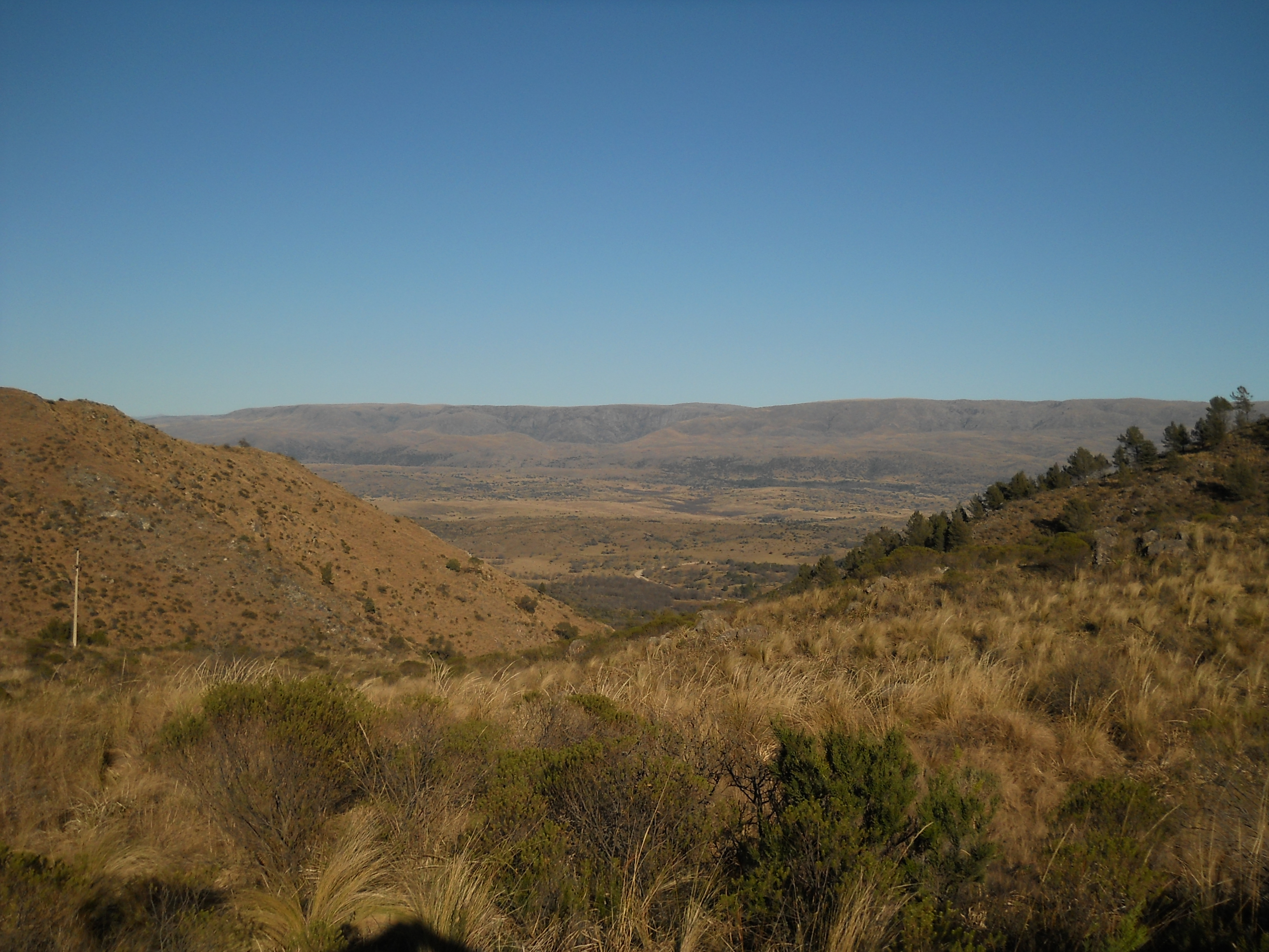 In the center of the photo, overlooking the 'Quebrada de Condorito' from afar.